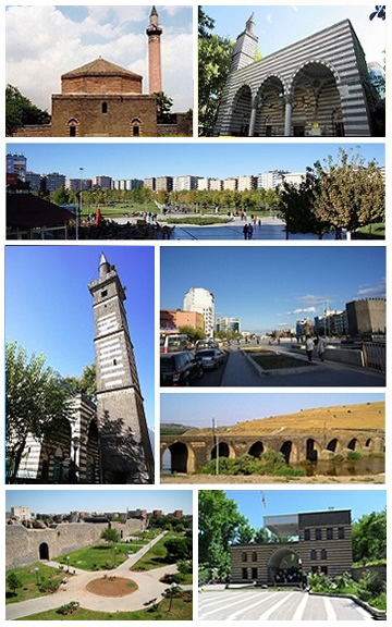 From left to right and from top to bottom: 1) Ali Pasha Mosque; 2) Nebi Mosque; 3) Seyrangeha Park; 4) Dört Ayakli Minare Mosque; 5) Deriyê Çiyê; 6) On Gözlü Bridge (or Silvan Bridge), over Tigris River; 7) Diyarbakır City Wall; 8) Gazi Pavillion (Gazi Köşkü)